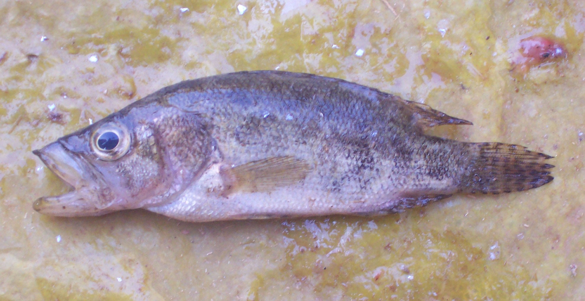 A fresh water fish species from Kathani river of Wainganga basin from the Gadchiroli district of Maharashtra state India.